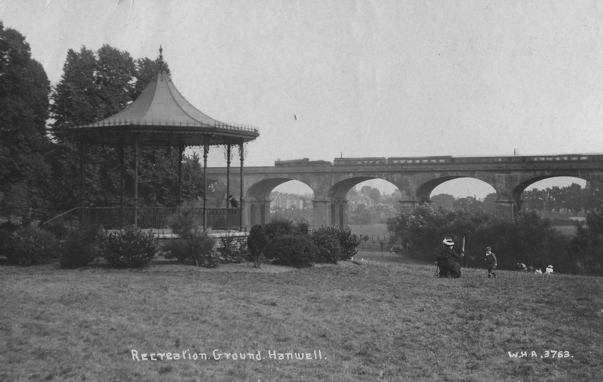 Wharncliffe Viaduct Hanwell, London W7 Designed by Isambard Kingdom Brunel Built between February 1836 - 1837 Location of subject: OSGB36: TQ 150 804 WGS84: 51:30.6501N 0:20.6544W View Direction: South-east Scanned by me from postcard.